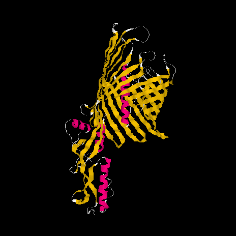 Structure Of The Membrane Protein Fhac (Bordetella pertussis filamentous hemagglutinin FHA): A Member Of The Omp85TPSB TRANSPORTER FAMILY. Structure MMDBID59438 and Rasmol